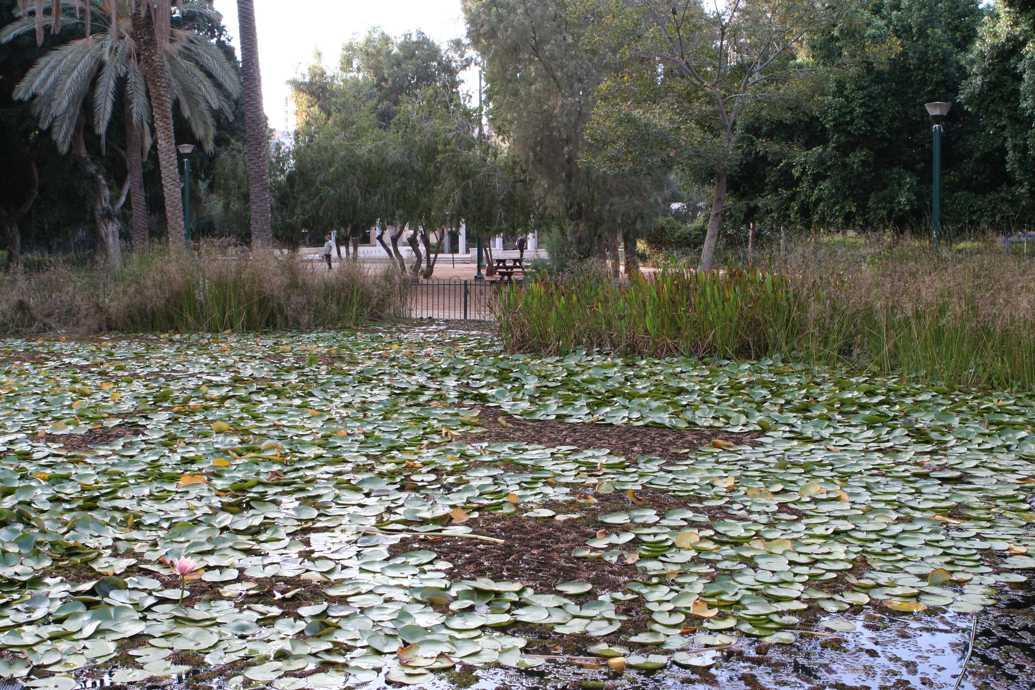 Gan Meir garden in Tel Aviv